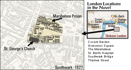 Little Dorrit: London and Marshalsea in 1827